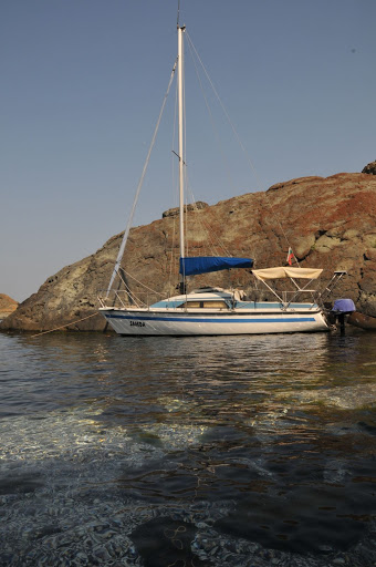 vateruhi